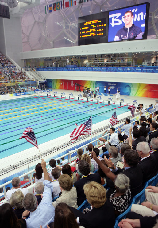 President George W. Bush waves an American flag as U.S. swimmer Michael Phelps is presented his gold medal after winning the 400-meter Individual Medley Sunday, Aug. 10, 2008, at the 2008 Summer Olympics in Beijing.